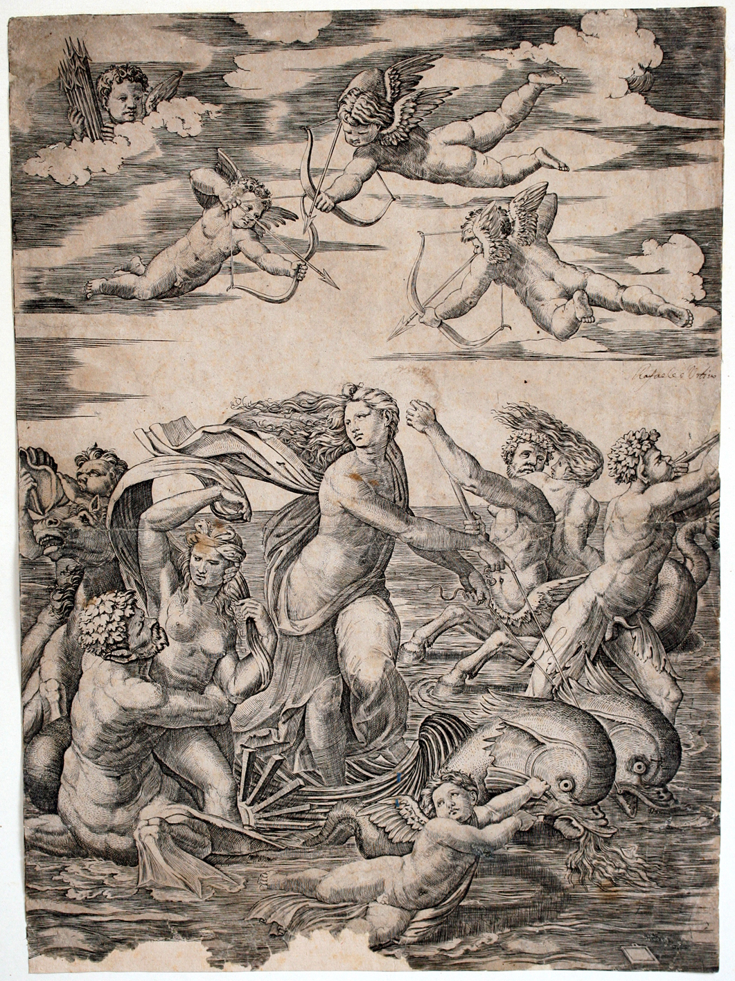 Raimondi, Marcantonio 1480 - 1534. Galatea, after the fresco by Raphael, Rome, Villa Farnesina, circa 1515. Engraving 40.2 x 28.6 cm (image); 40.2 x 28.7 cm (sheet) inches. Losses at base. “C’est une des plus belles et des plus rares de son oeuvre. Sa tablette, sans les chiffres, est à la droite d’en bas.” See purchase details under inv. no. 7.033. This is NOT the copy by Marco Dente da Ravenna (1493-1527), the pupil of Raimondi.